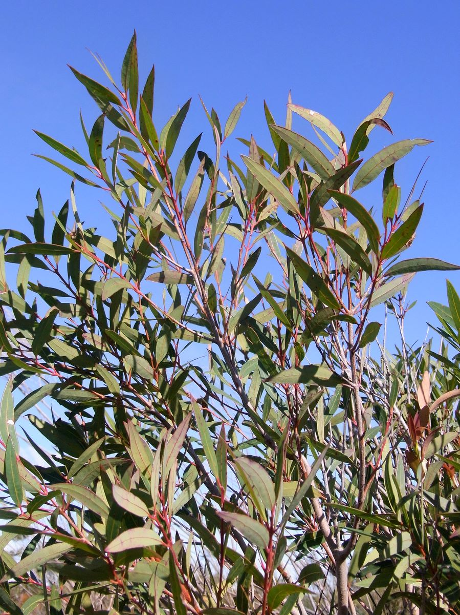 Angophora plant at the Terry Hills area, Garigal National Park. This area was surveyed by the Royal Botanic Gardens, Sydney. And the Angophoras here were declared to be Angophora crassifolia